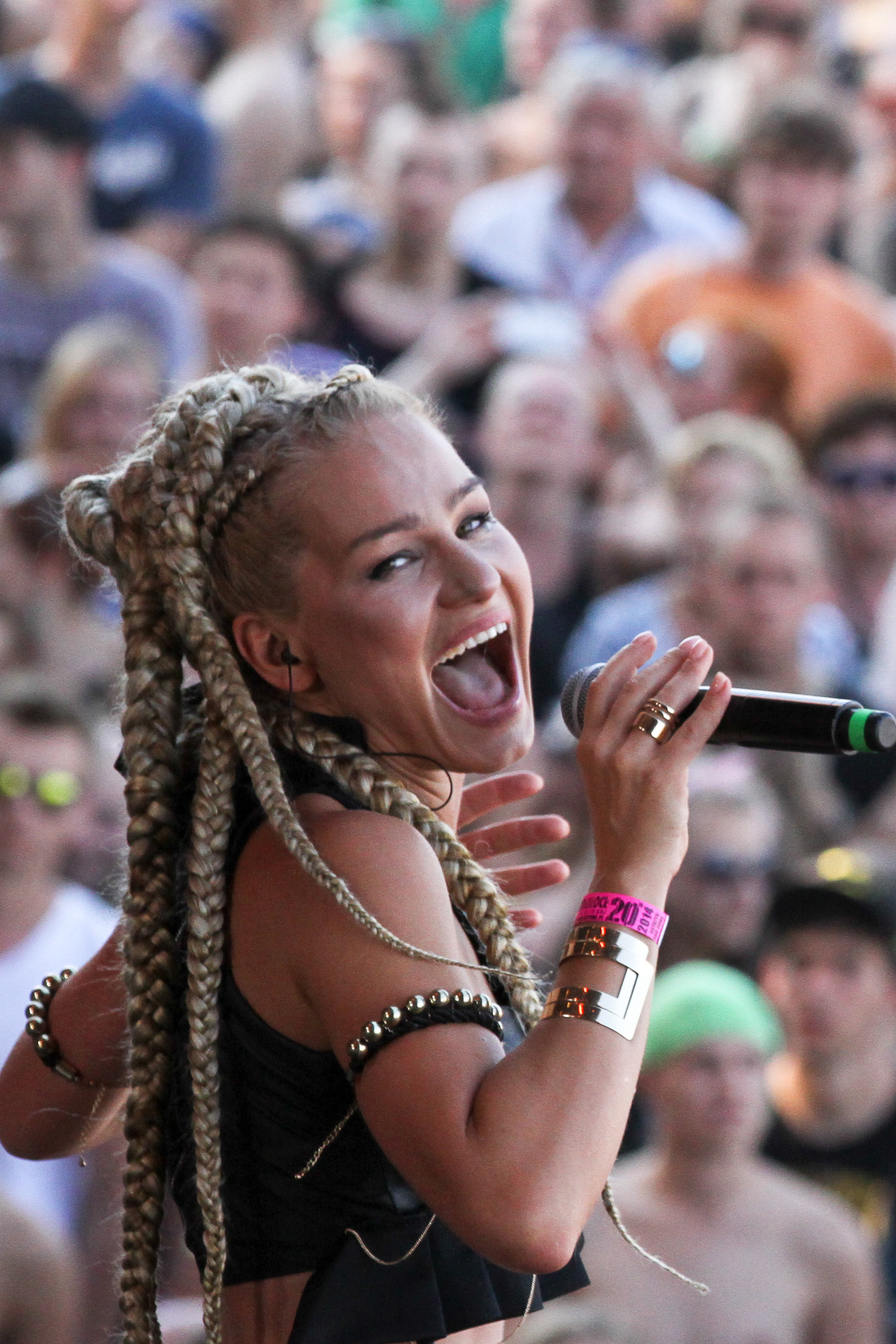 The polish singer Marika at Przystanek Woodstock 2014.